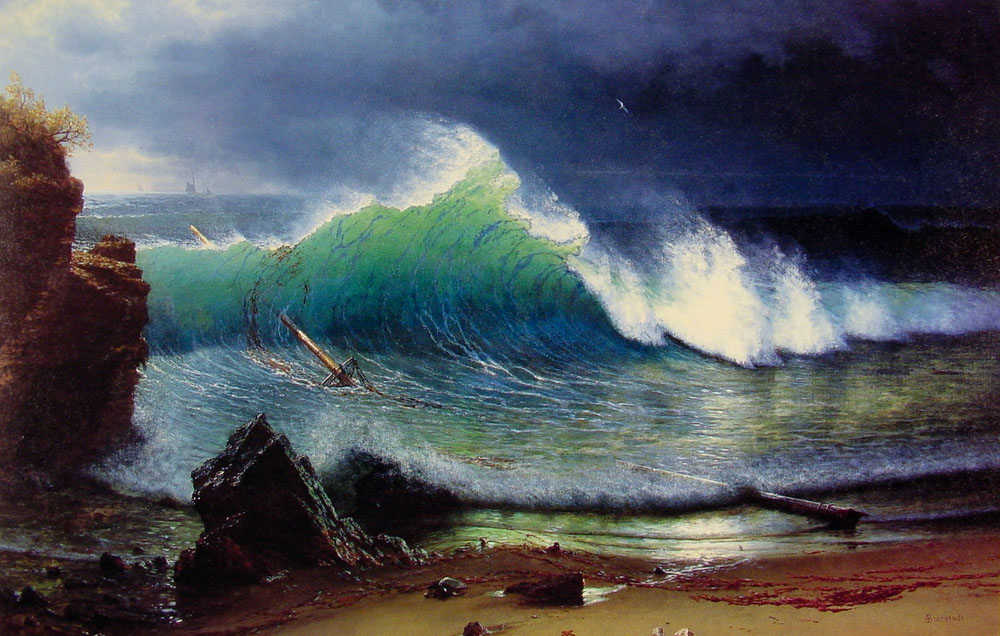 The Shore of the Turquoise Sea